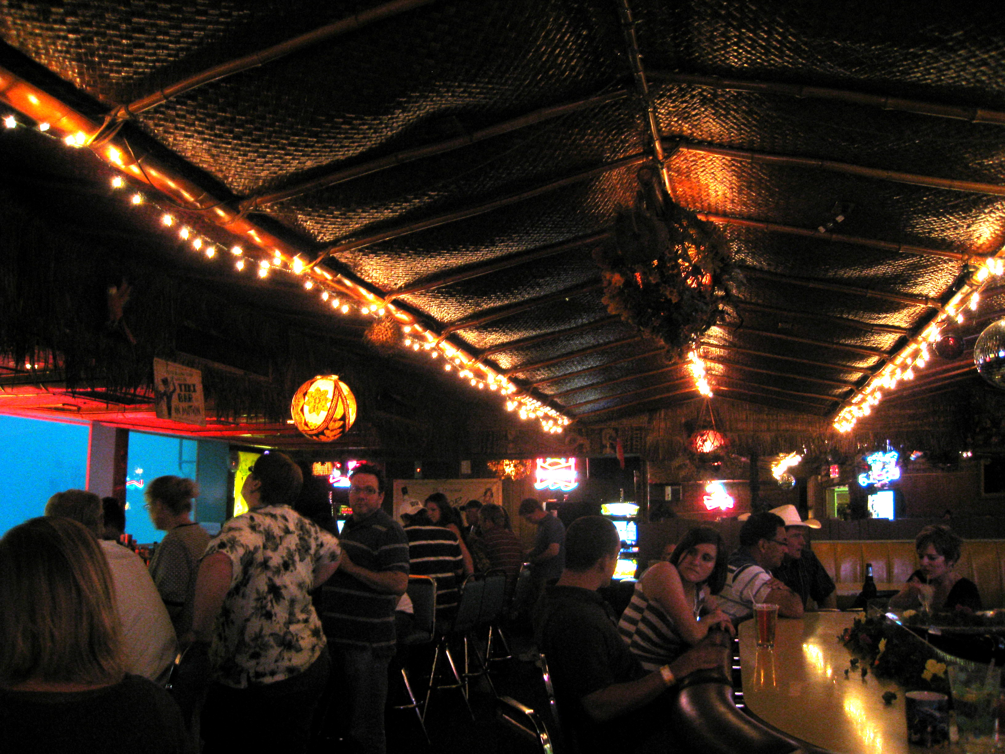 Sip 'n' Dip lounge, O'Haire Motor Inn, Great Falls, Montana From source: "Apparently GQ magazine says the Sip'n'Dip is the best bar on earth. I'm not particularly well traveled, but based on my experience, I could believe it. It's hard to top mermaids, the fishbowl, and Piano Pat."